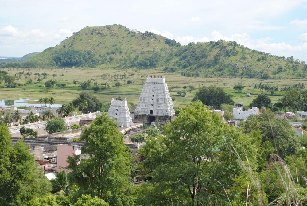 Devikapuram full view